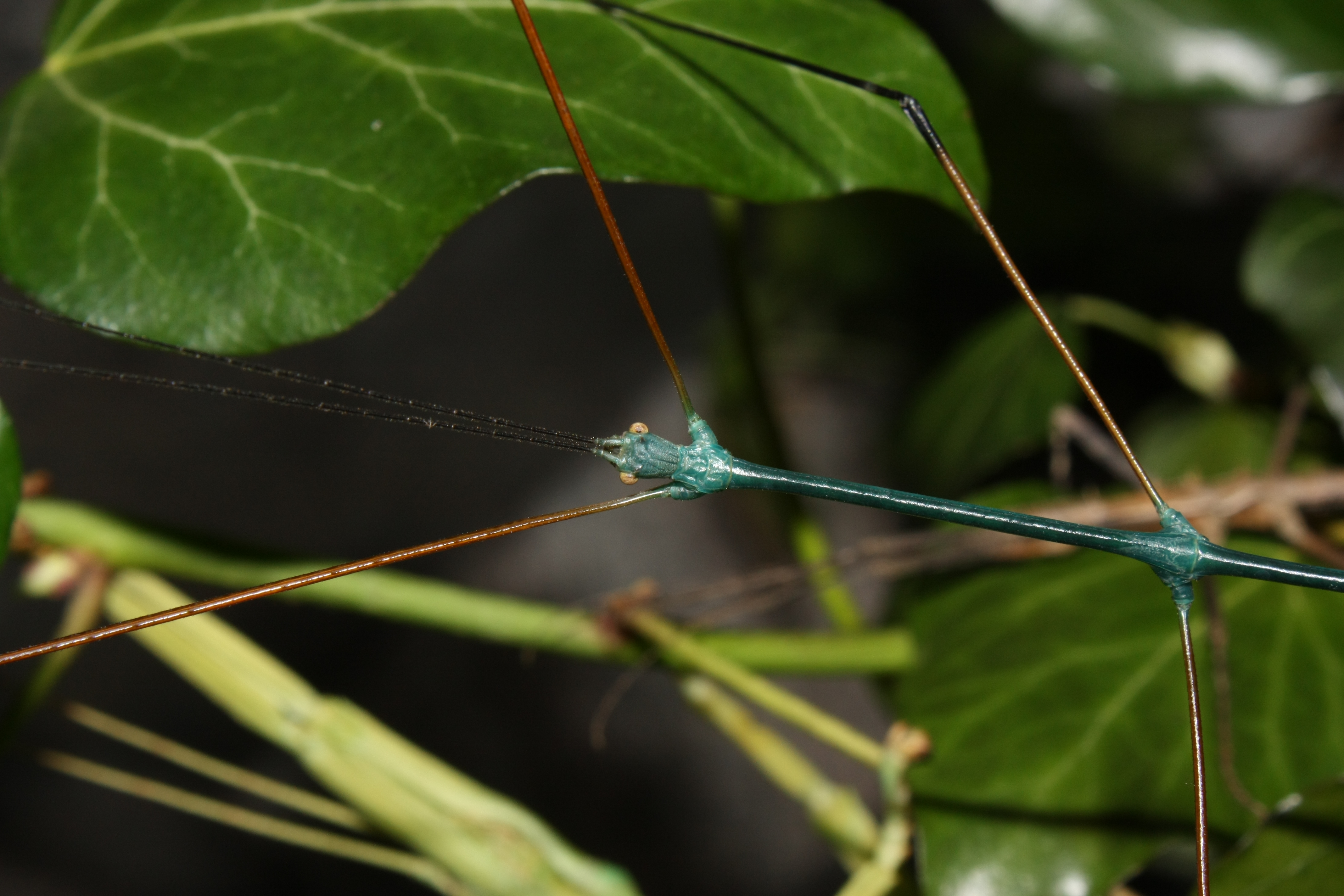 portrait of a blue male of Ramulus nematodes